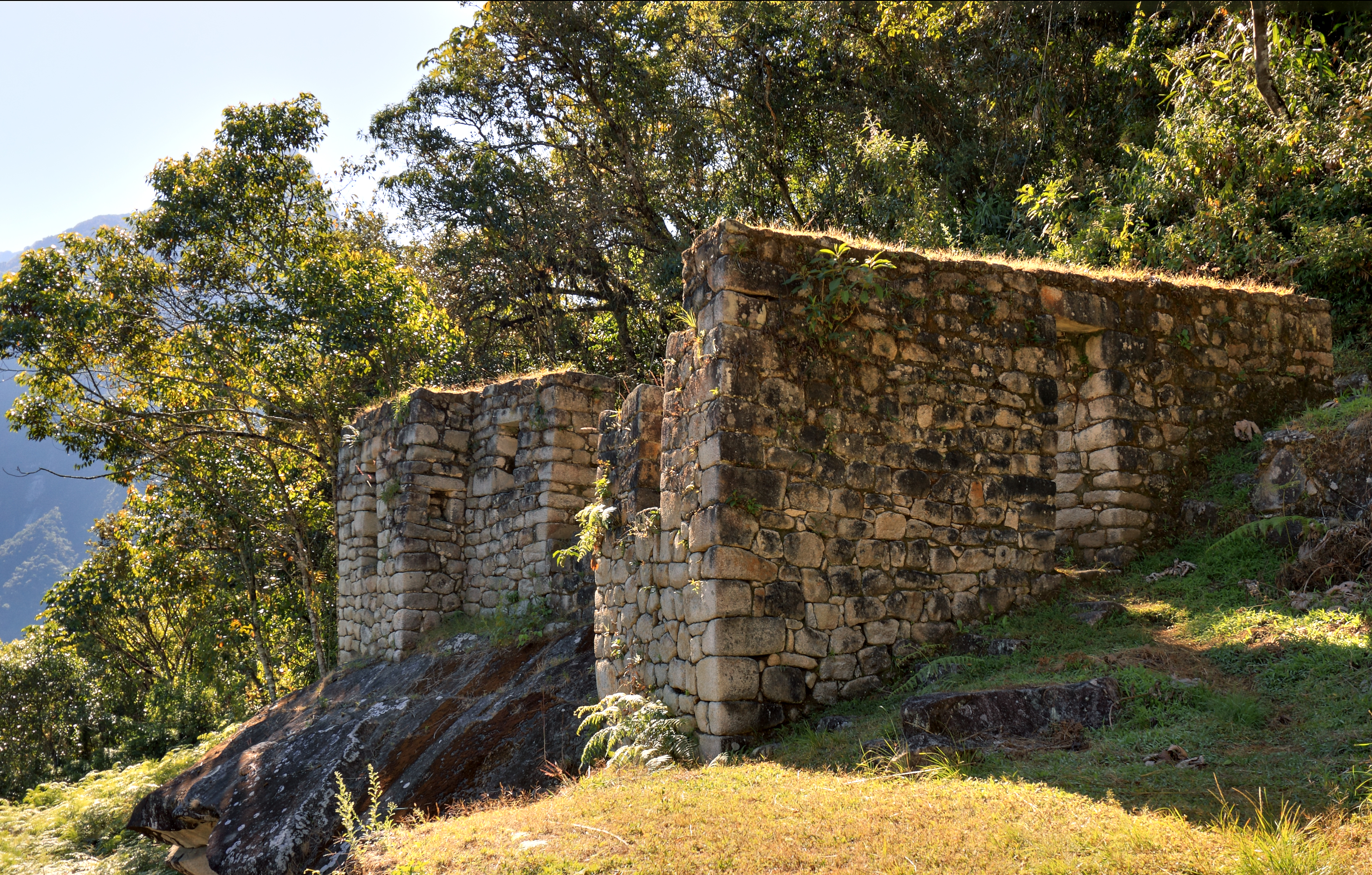 Please, have this description accessible to all by translating it in different languages.